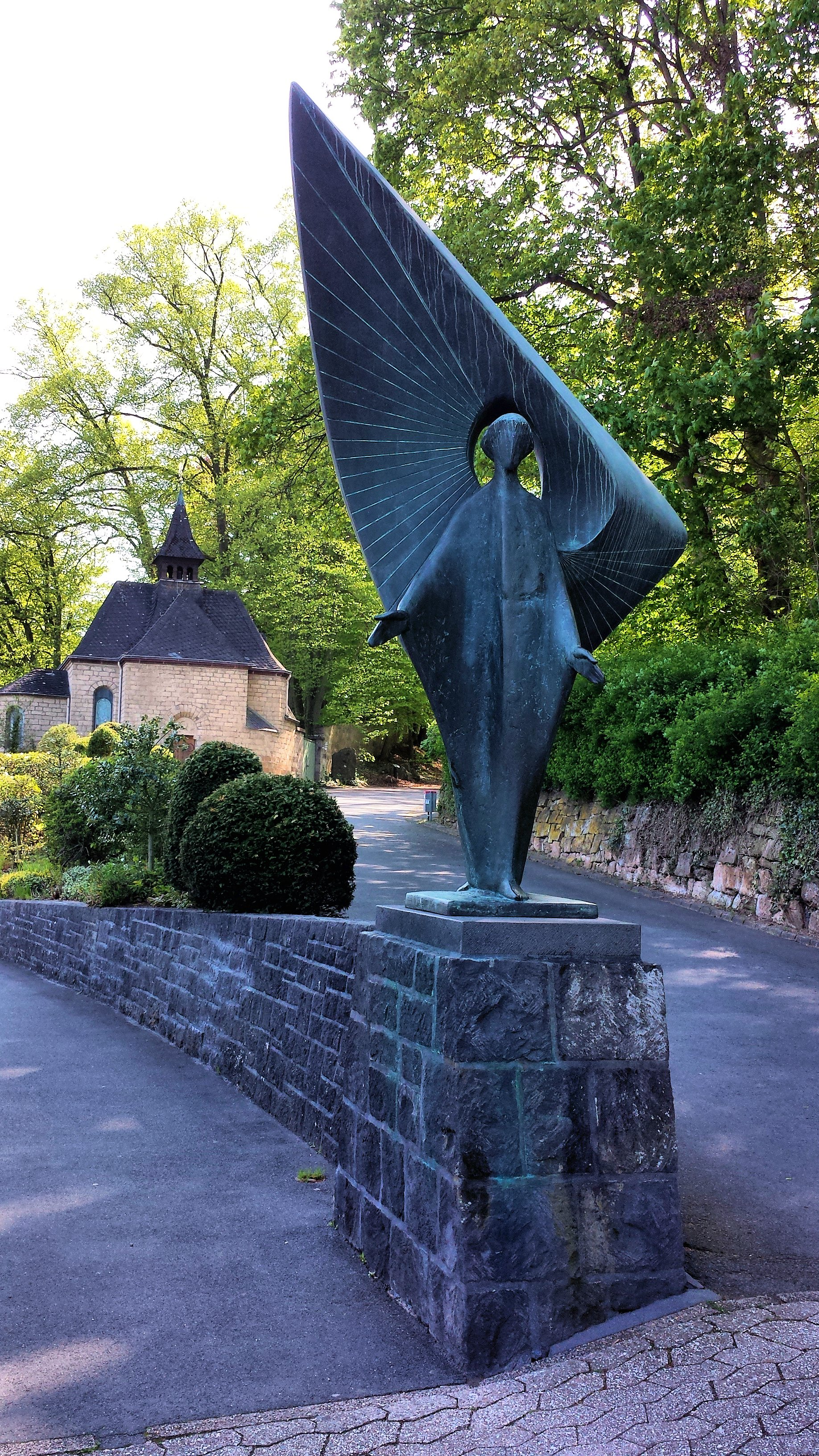 Werner Franzen Bronze Angel at Monastery Maria Laach